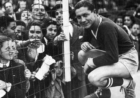 Arsenio Erico posing with a group of women during a match in the Independiente stadium.